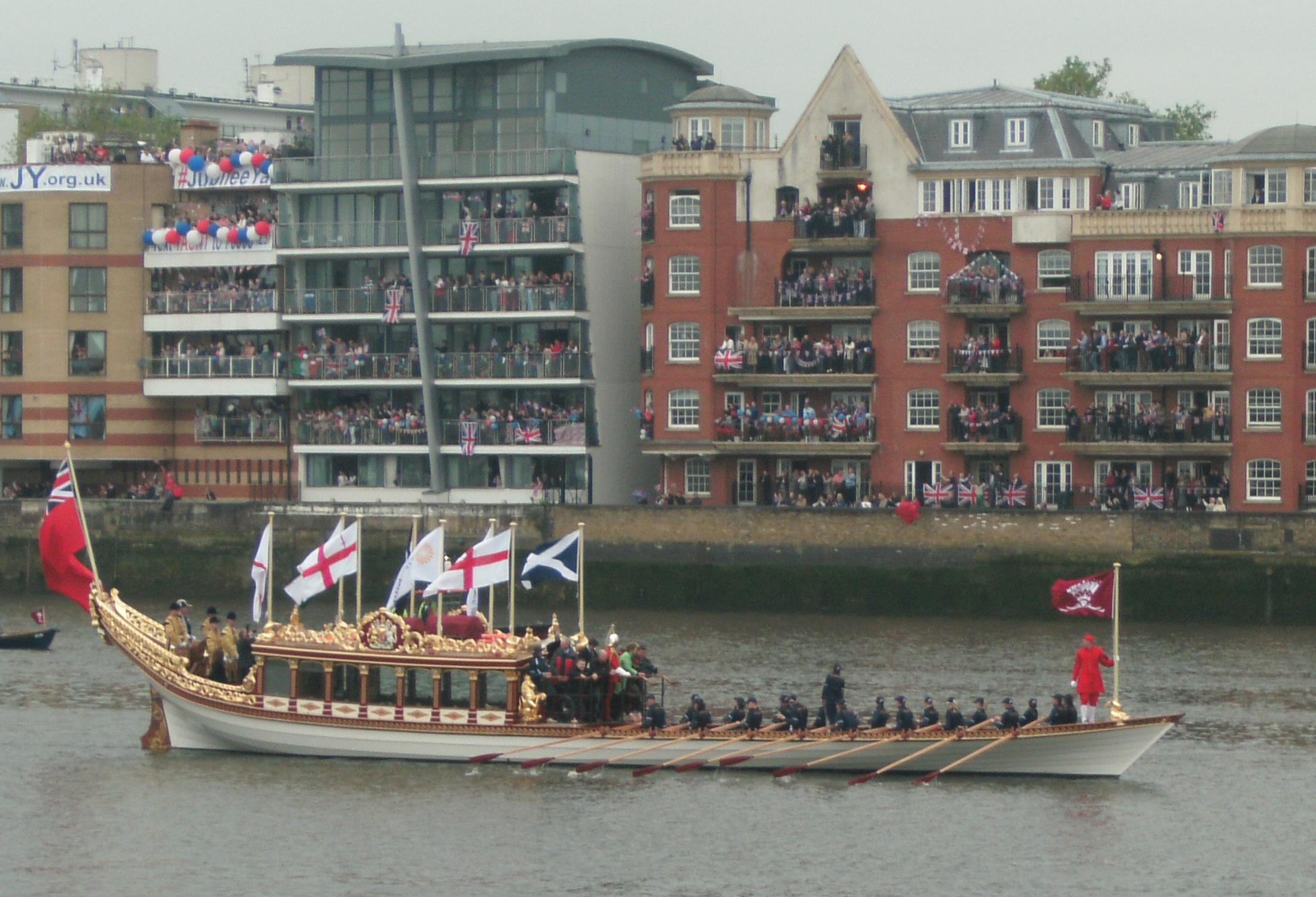 The royal barge Gloriana in Queen Elizabeth II's Diamond Jubilee Pageant on the River Thames.